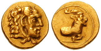 1/10th stater: Heracles with lion's skin / Lying goat. Coining under Euagoras I (411-374 BC) 0.71 g, SNG Copenhagen 733597